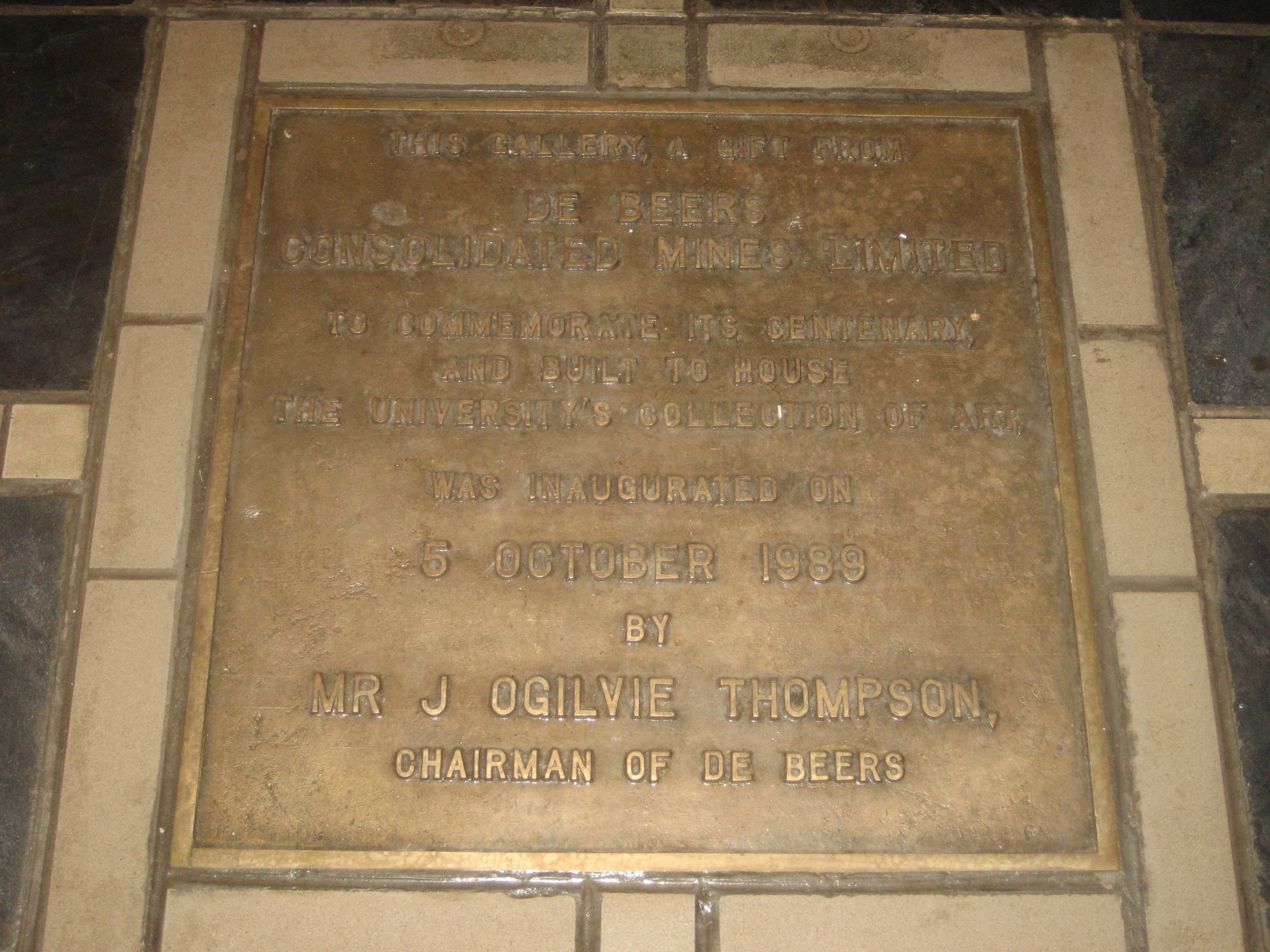 De Beers Centenary Art Gallery, University of Fort Hare. Text of the plaque reads: "This gallery, a gift from De Beers Consolidated Mines Limited to commemorate its centenary, and built to house the university's collection of art, was inaugurated on 5 October 1989 by J. Ogilvie Thomson, chairman of De Beers.